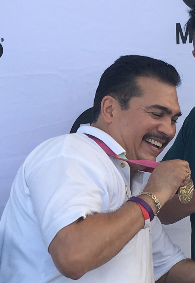 Paul Gonzales, Olympic boxer, at El Monte Station at an appearance for the Los Angeles County Metropolitan Transportation Authority.